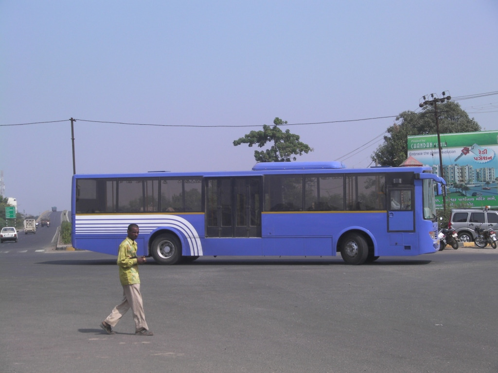 The BRT bus with the right side doors